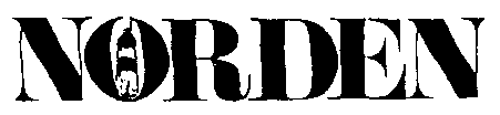 Finnish-American journal published weekly in New York City. Logo from late 1980s.